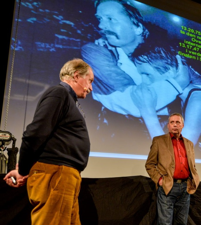 Dette er et privat bilde i fra en etatskonferanse i Sjøfartsdirektoratet der jeg og Johan Kaggestad holdt et foredrag. Dato: 7. mars 2013.